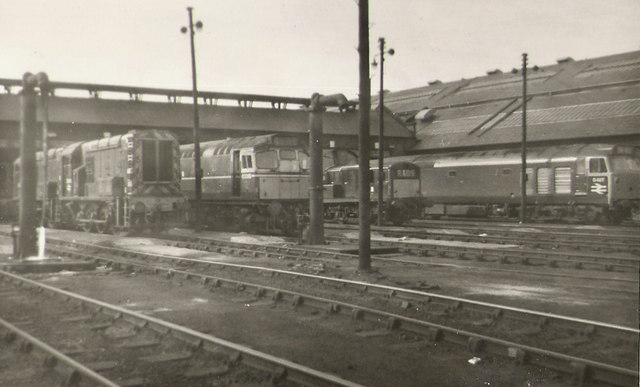 Polmadie loco sheds